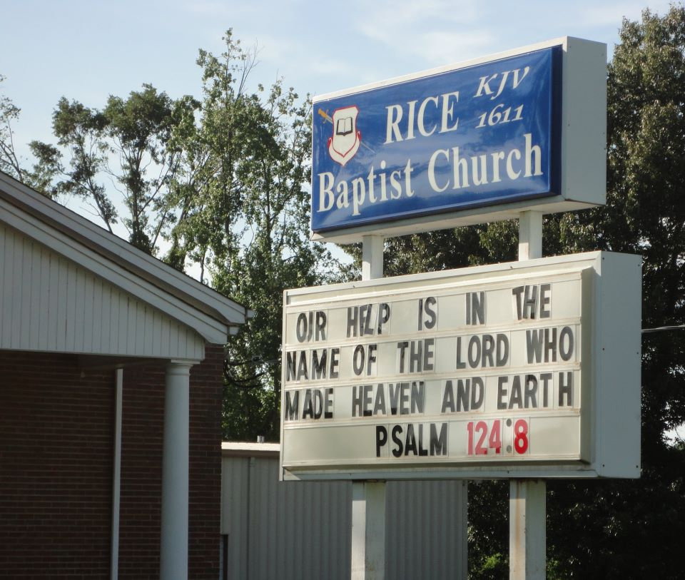 Sign in front of a churchhouse with indication that the congregation exclusively uses the Authorized King James Version of 1611